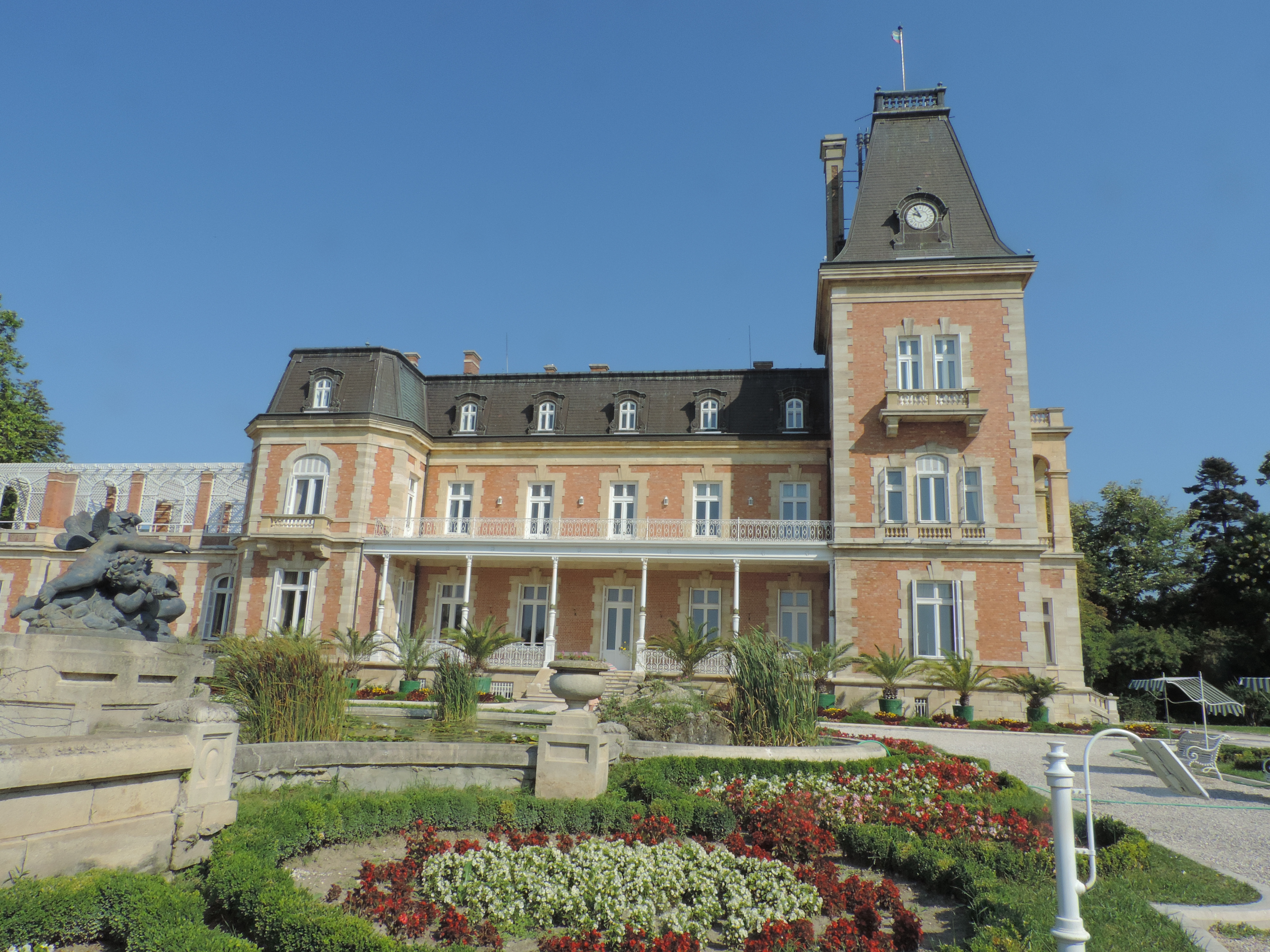 Euxinograd is a late 19th-century Bulgarian former royal summer palace and park on the Black Sea coast, 8 kilometres (5.0 mi) north of downtown Varna. The palace is currently a governmental and presidential retreat hosting cabinet meetings in the summer and offering access for tourists to several villas and hotels. Since 2007, it is also the venue of the Operosa opera festival. Euxinograd is situated at an altitude of 49 m. The park and palace were closed until the summer of 2016 due to extensive renovations.